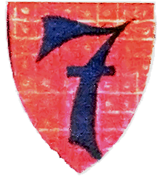 Coat of arms of Siebenhirten, Vienna